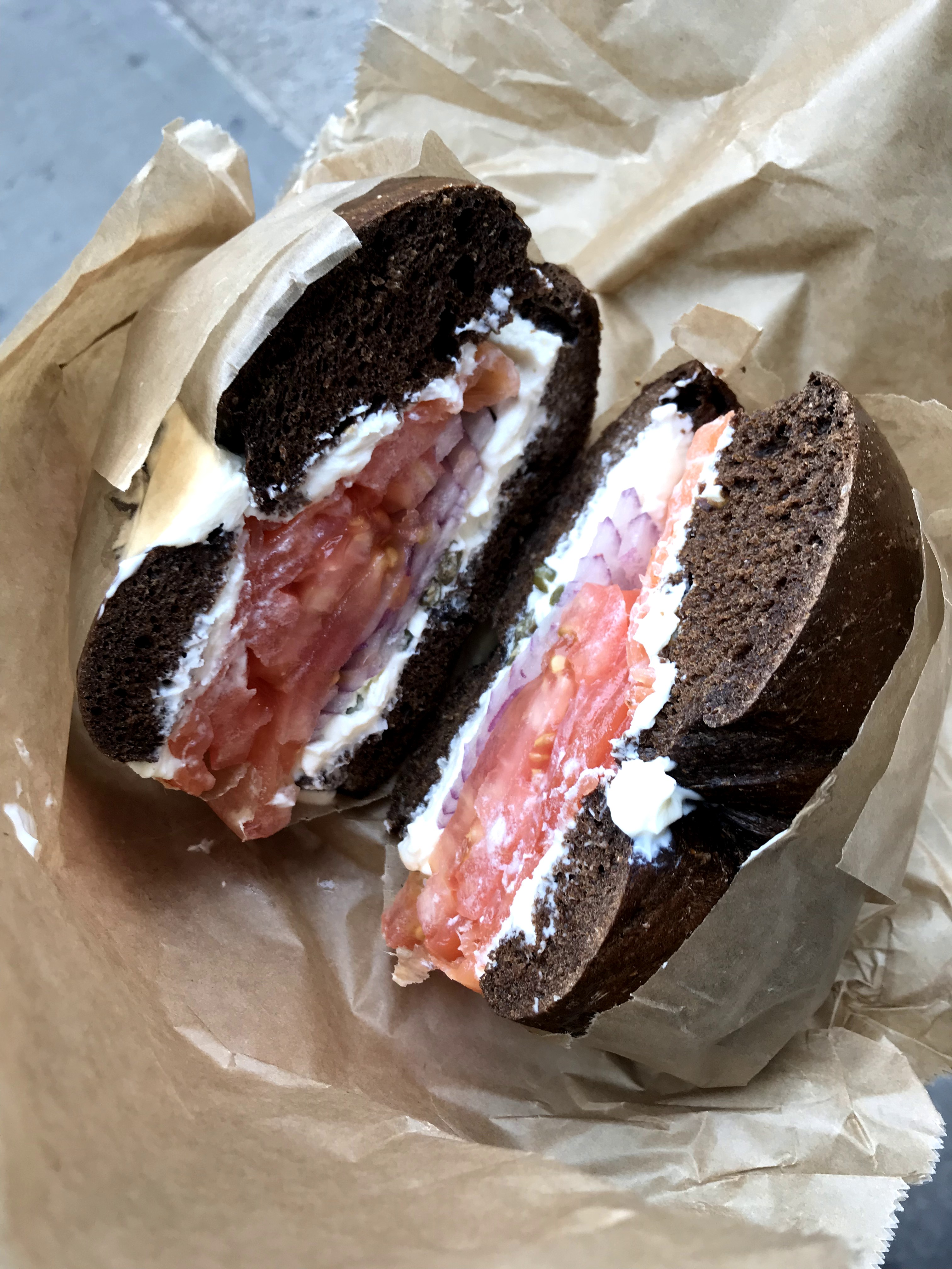 Smoked salmon bagel, New York City, USAApparently at Brooklyn Bagel & Coffee Company, 268 8th Avenue, Manhattan